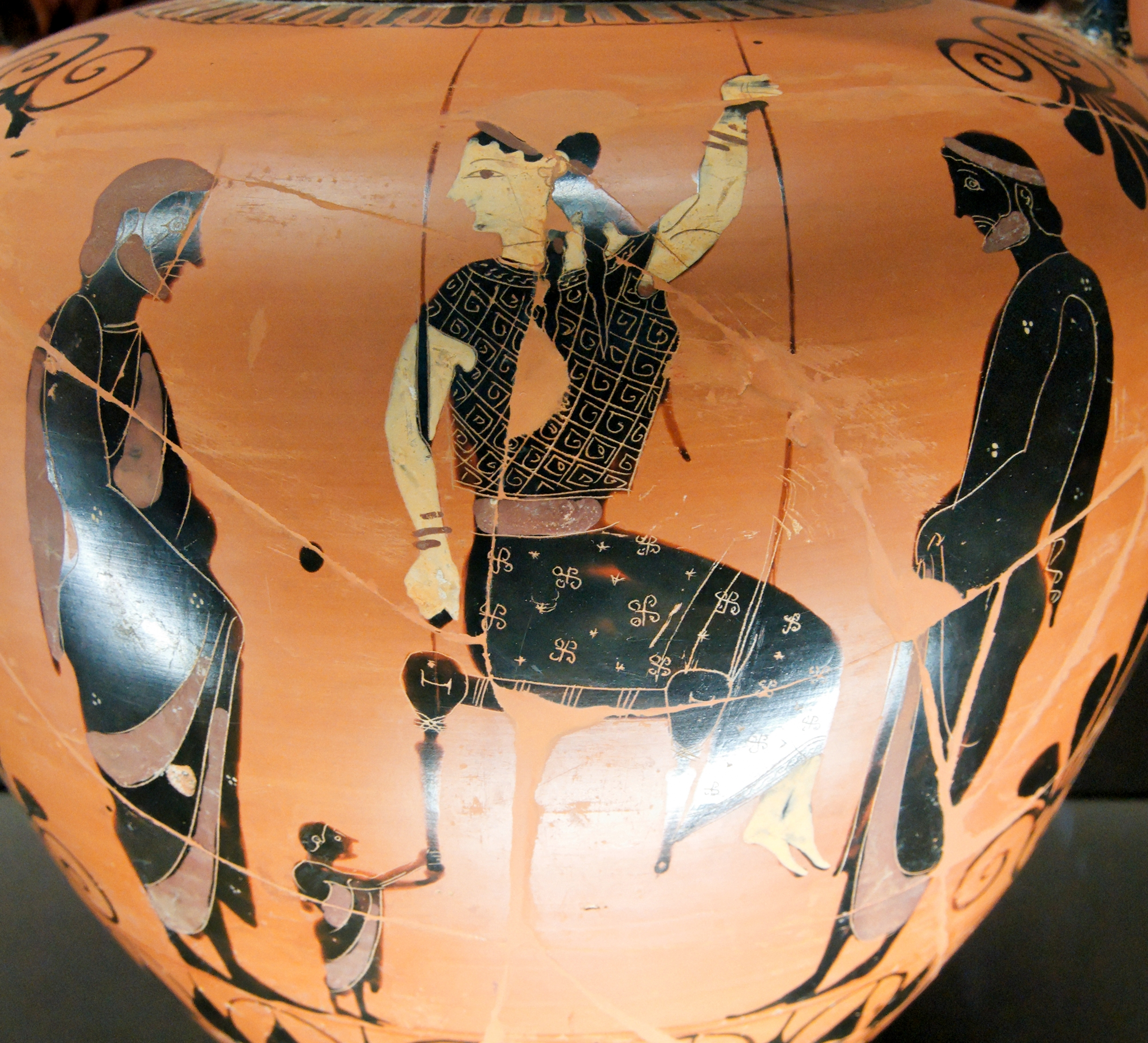 Woman on a swing. Side B of an Attic red-figure black-amphora, ca. 525 BC. From Vulci.